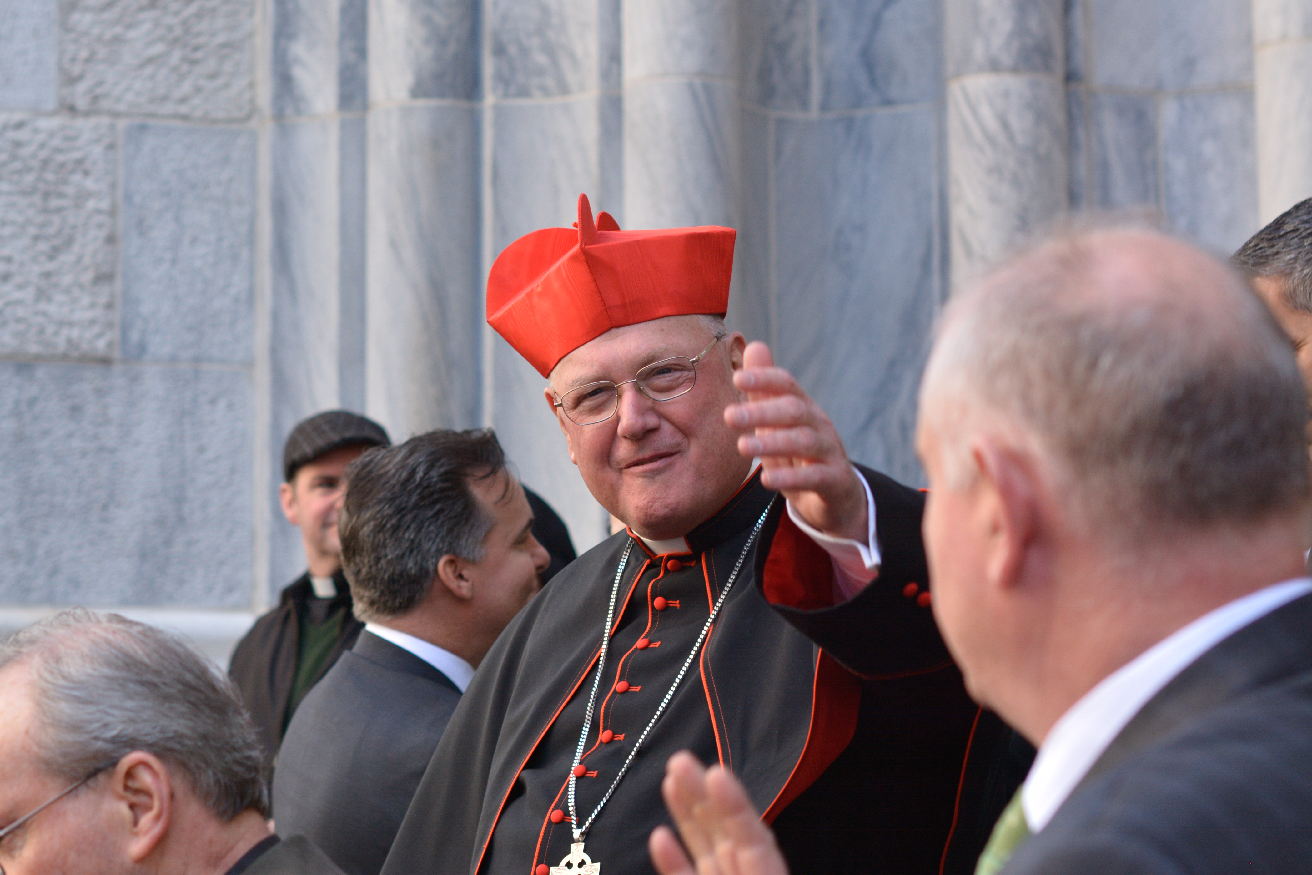 New York City Parade 2016